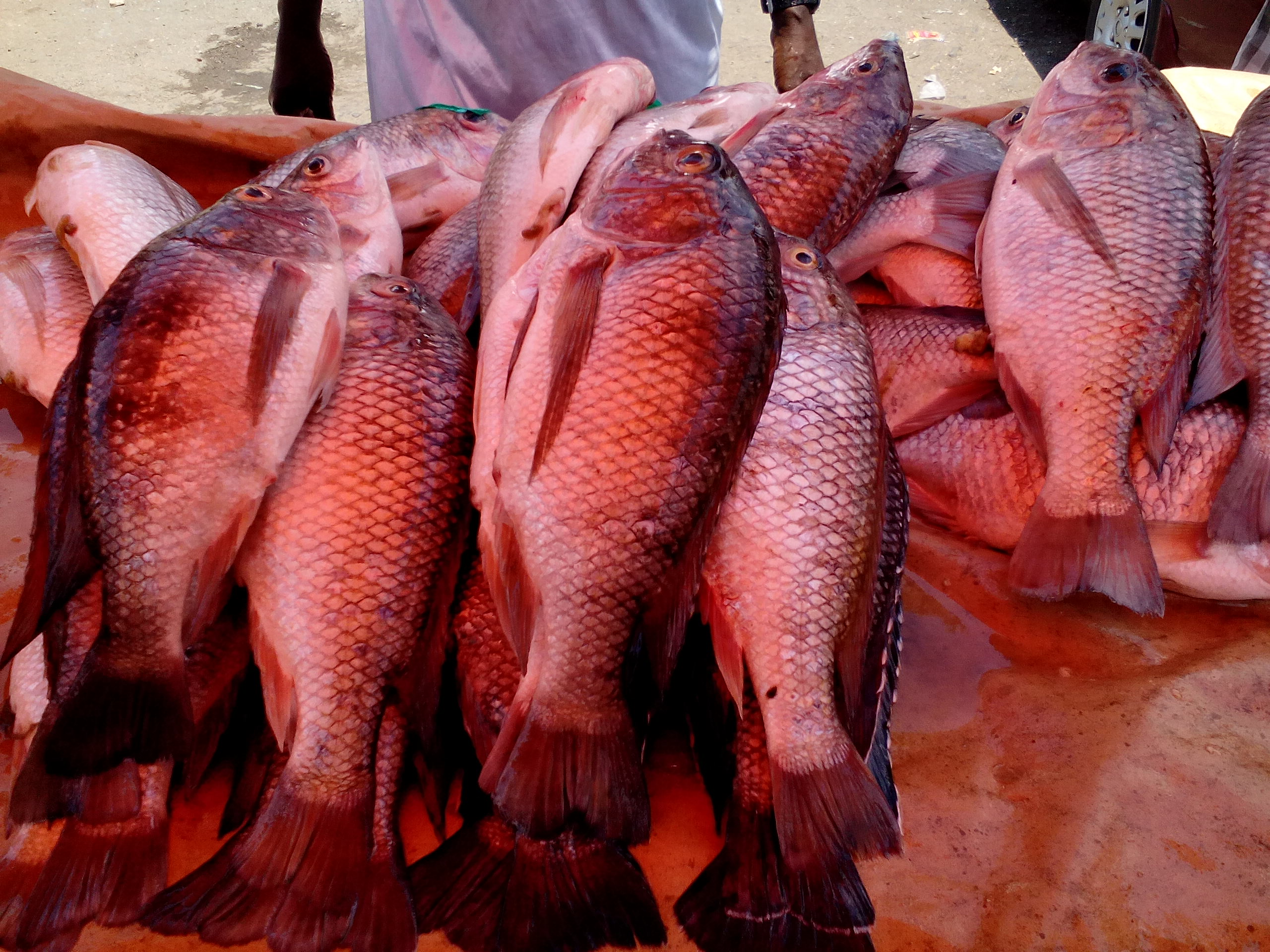 Chambo (tilapia) fish, Blantyre market, Malawi This is an image of food from Malawi